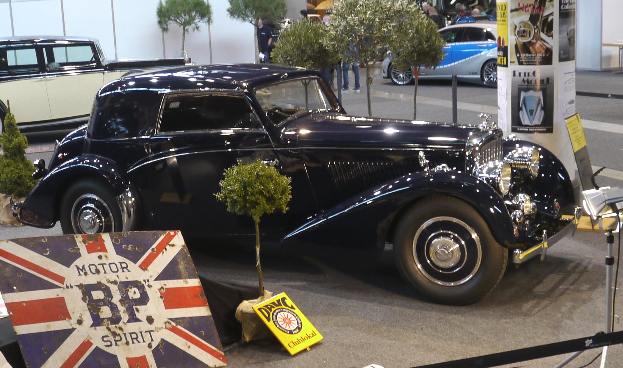 Messe Automobil, Freiburg, Germany, 2013